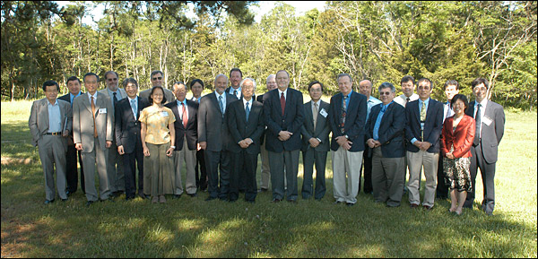 Physicists attended the "30th Meeting of the U.S. / Japan Committee for Cooperation in the Field of High Energy Physics" at the Brookhaven National Laboratory in Brookhaven Town, Suffolk County, New York State on June 12 and 13, 2008.